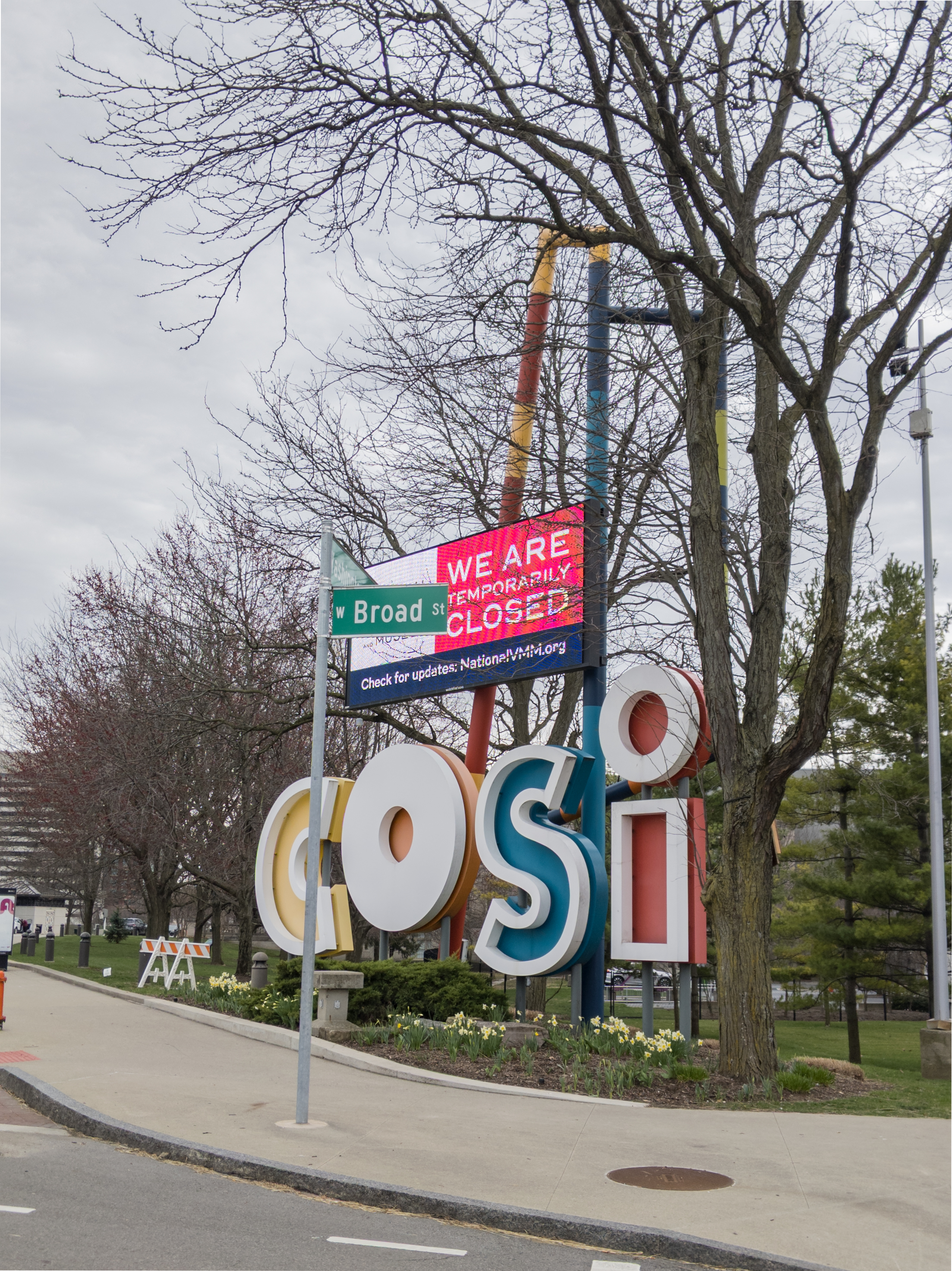 COSI sign, closed due to the coronavirus pandemic, Columbus, Ohio.